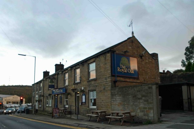 The Royal Oak Deepcar